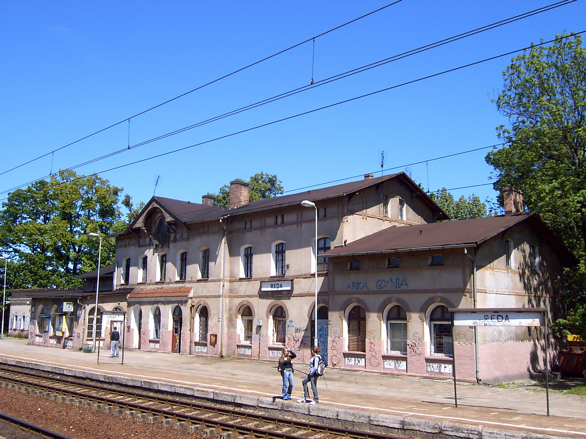 Reda. Main building of a railway station from 1868-1870.View from platforms. 2006.05.06.